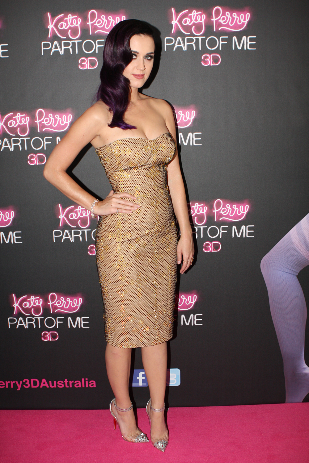 Katy Perry 'Part Of Me' movie premiere in Sydney, Australia